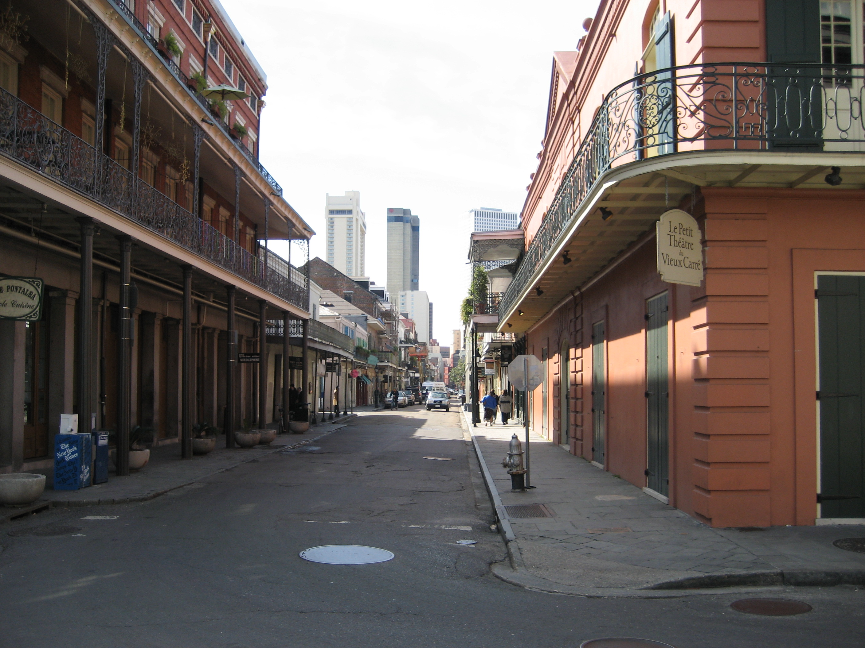 French Quarter, New Orleans. Looking up Charters Street from St. Peter. Upper Pontabla Building on left; Le Petit Theater on right.